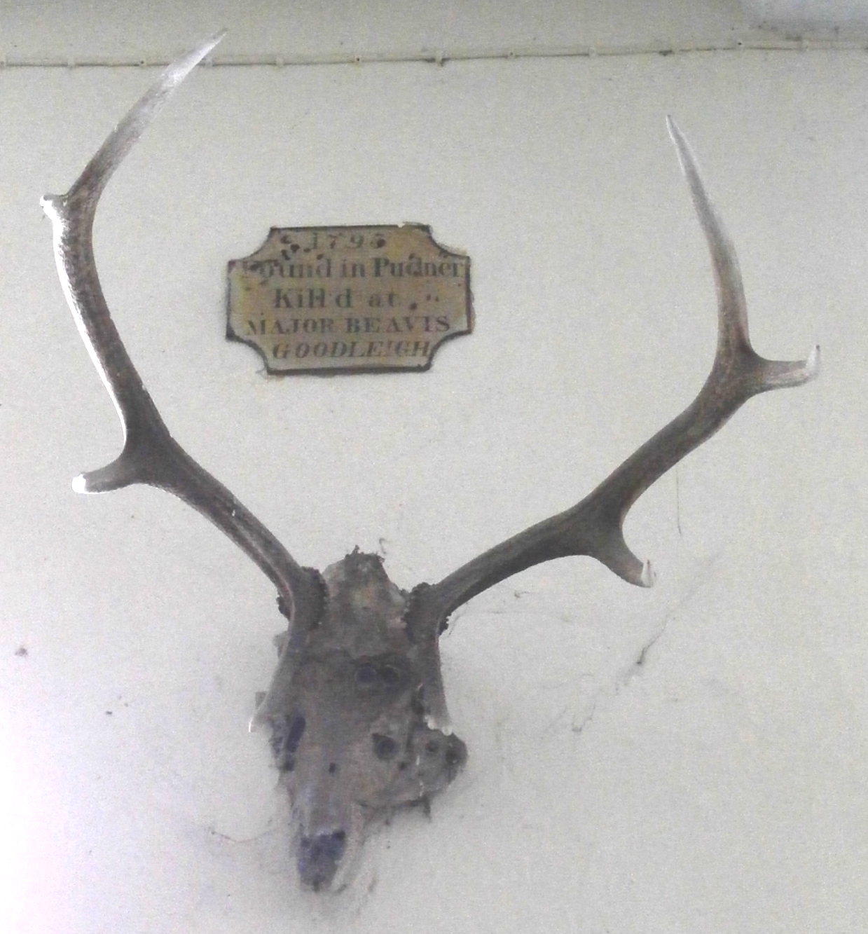 Red deer stag antlers, hunting trophy of Devon and Somerset Staghounds, mounted by Sir Thomas Dyke Acland, 9th Baronet (1752-1794) in his stables at Holnicote House, Selworthy, Somerset. Plaque inscribed: "1793: Found in Pudner, kill'd at Major Beavis Goodleigh". Major Henry II Beavis (1736-1813), from 1803 Lieutenant-Colonel Commandant of the Barnstaple Volunteer Infantry, lived at Yeotown House, in the parish of Goodleigh, near Barnstaple, North Devon. His mural monument survives in Pilton Church, on which he is called "Commandant, North Devon Regiment of Local Militia".